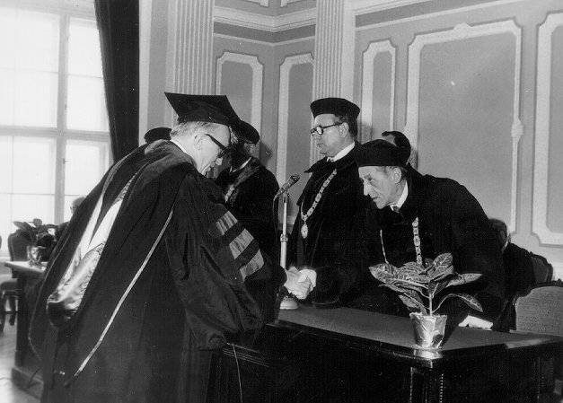 Horst Frenz (left) is literery man from USA and Károly Tandori (right) mathematicius